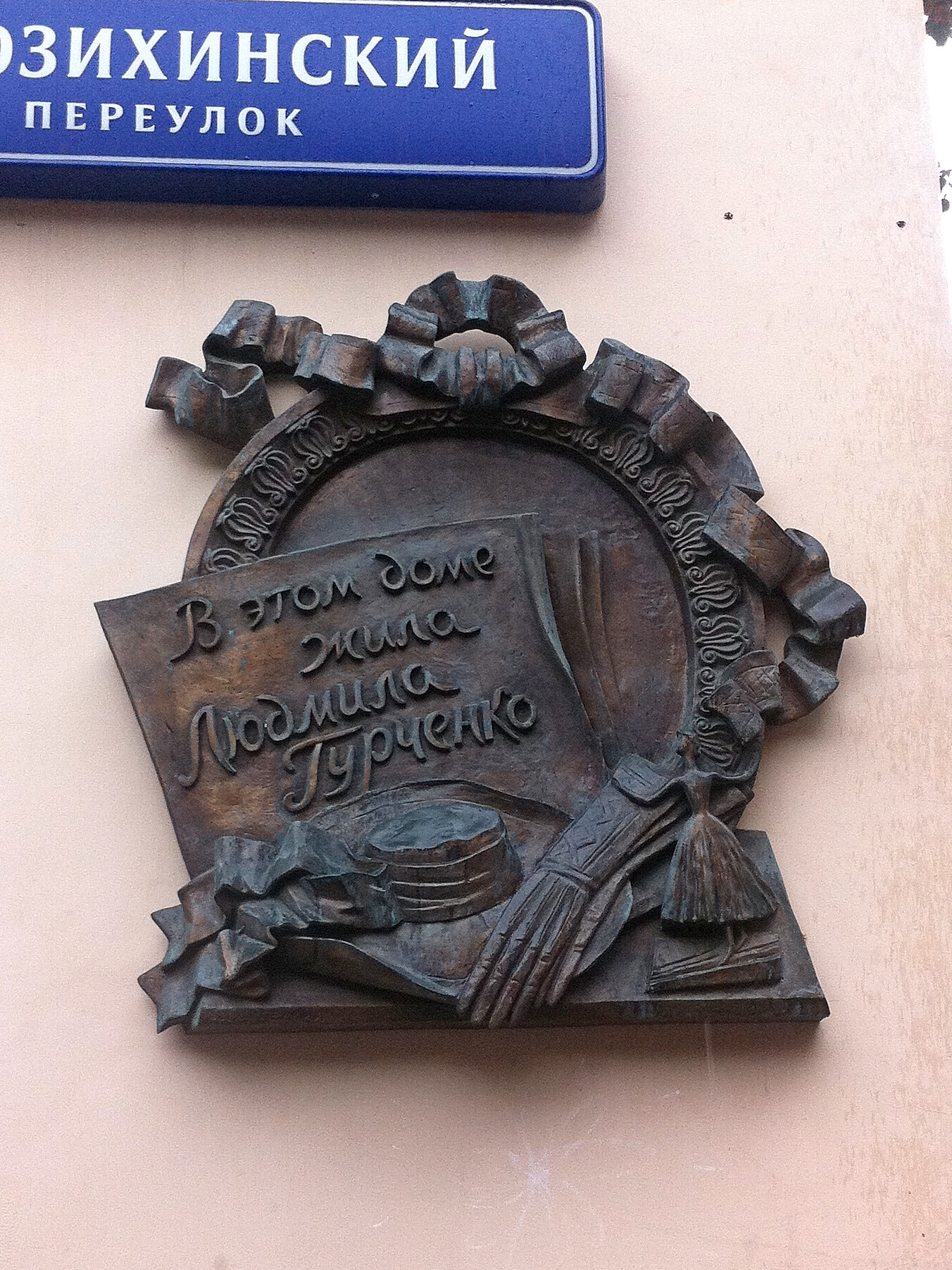 Memorial plaque on the facade of the house in Moscow (Trekhprudny pereulok, 11/13 st1), where Lyudmila Gurchenko lived.